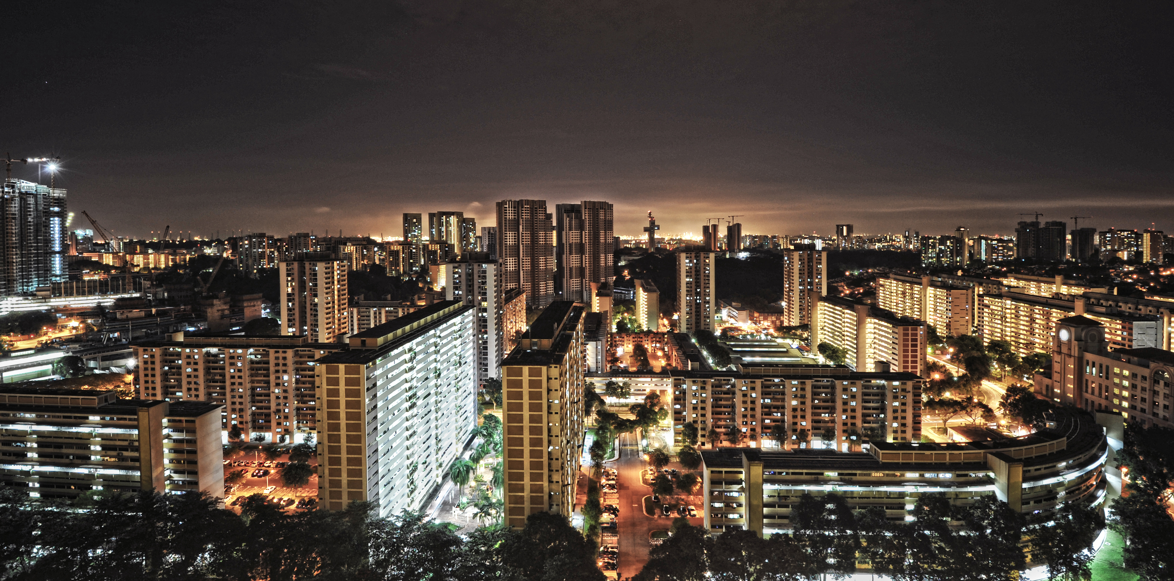 A night HDR panorama of an HDB estate in Ghim Moh, a district of Queenstown, Singapore.